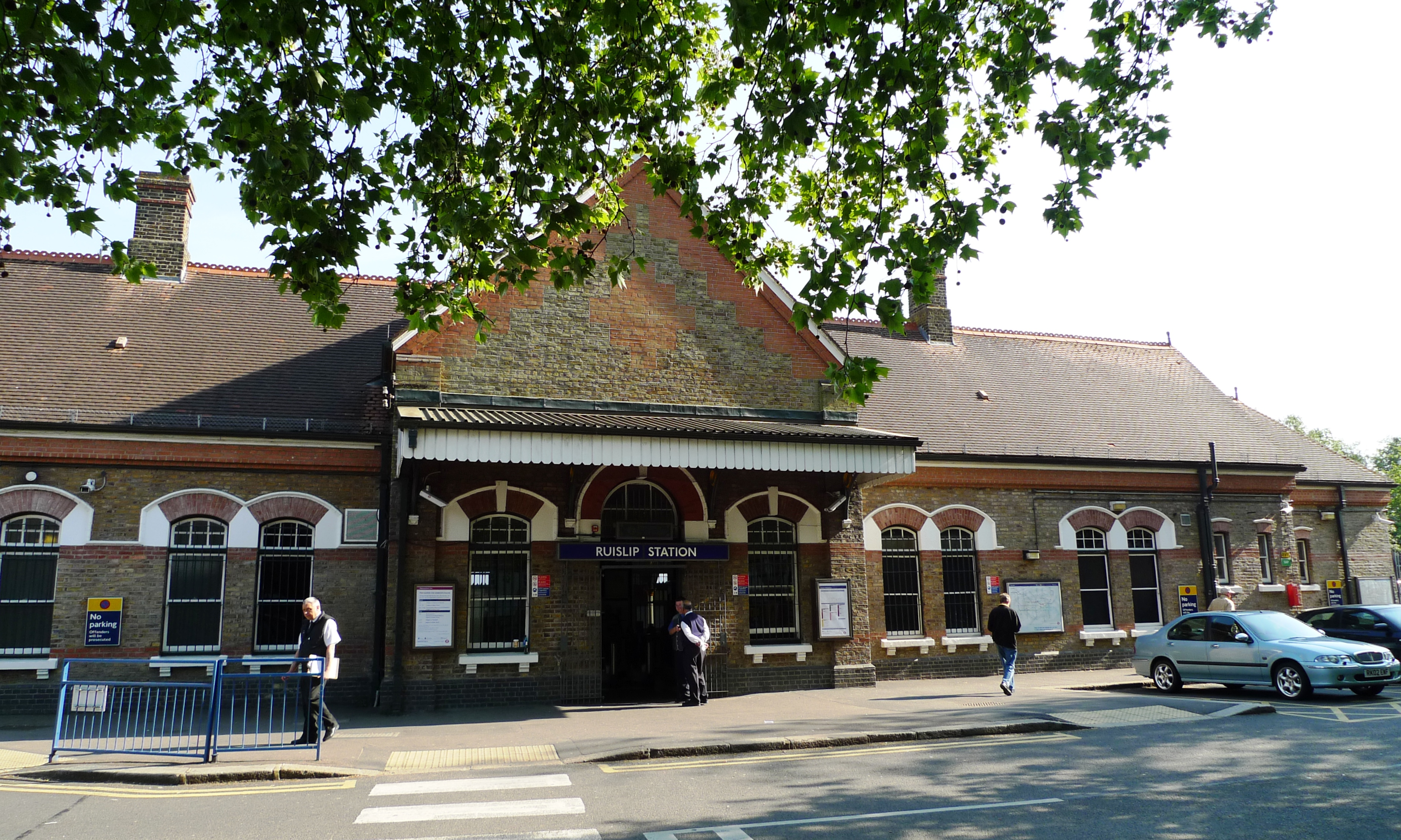 An attractive building for this outer station. Line(s) and Previous/Next Stations: Ickenham Ruislip Manor Ickenham Ruislip Manor Links: Randomness Guide to London Wikipedia